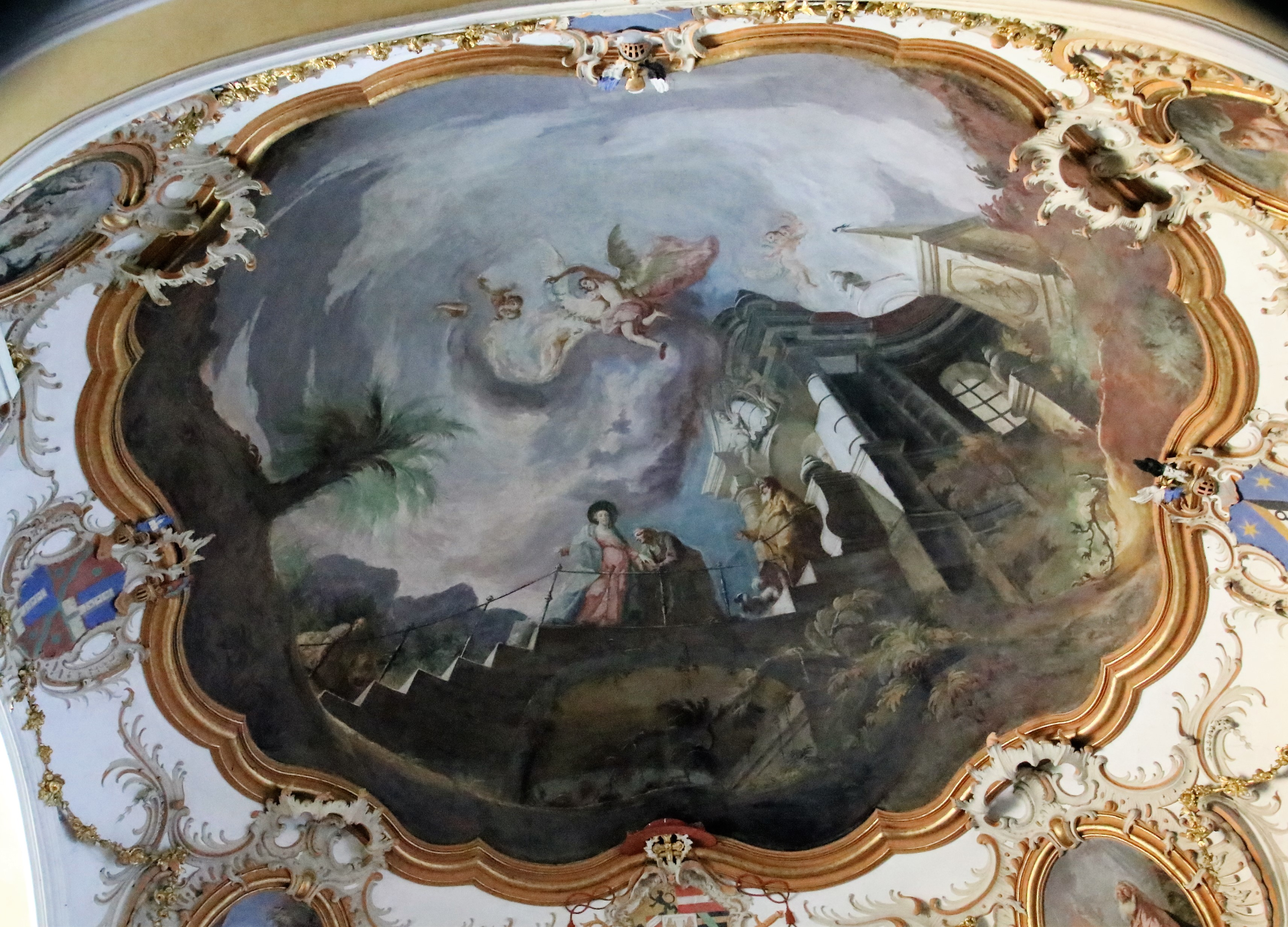 Church in Wanghausen Upper Austria